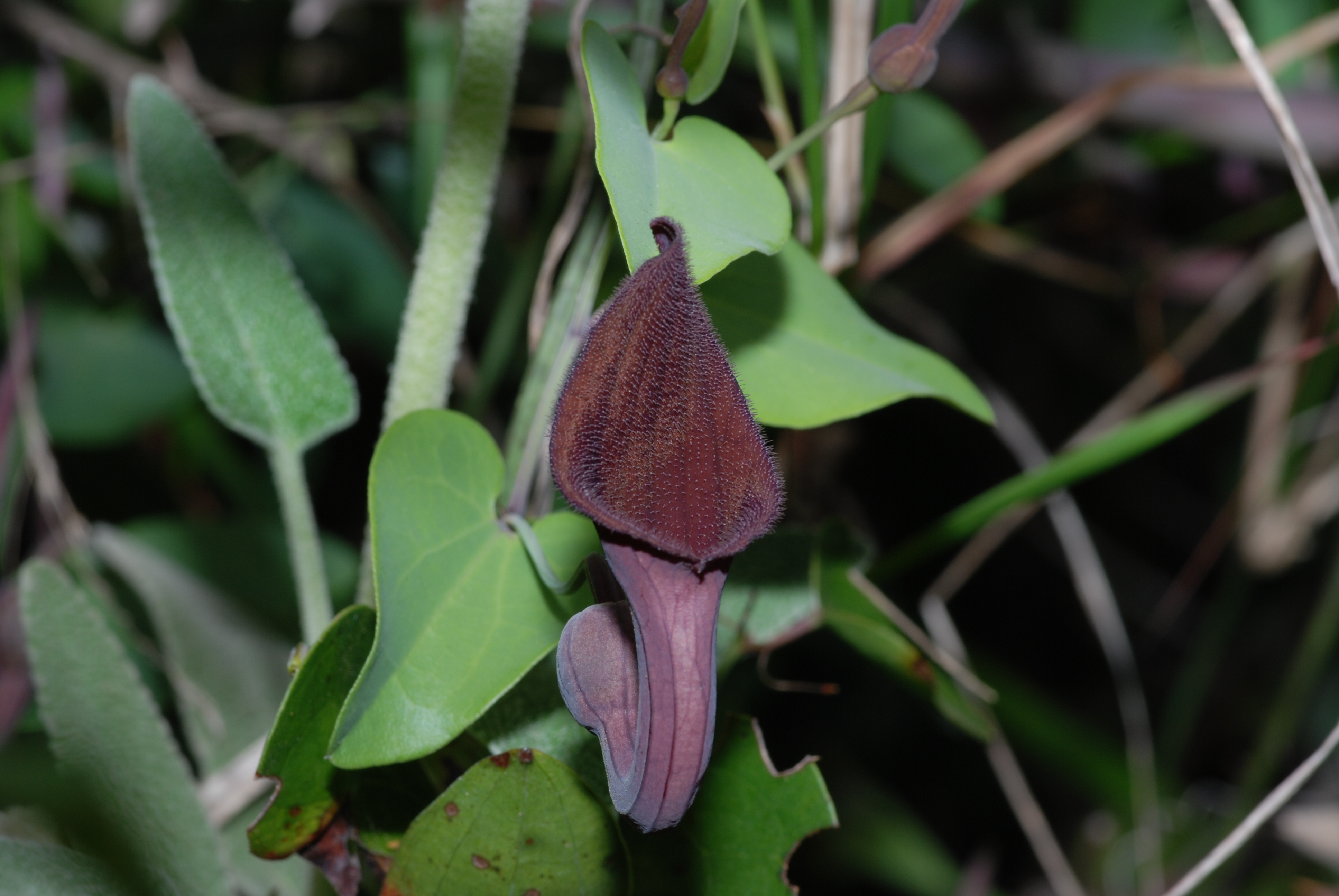 Según la taxonomía NCBI: cellular organisms Eukaryota Viridiplantae Streptophyta Streptophytina Embryophyta Tracheophyta Euphyllophyta Spermatophyta Magnoliophyta magnoliids Piperales Aristolochiaceae aristolochia Aristolochia baetica